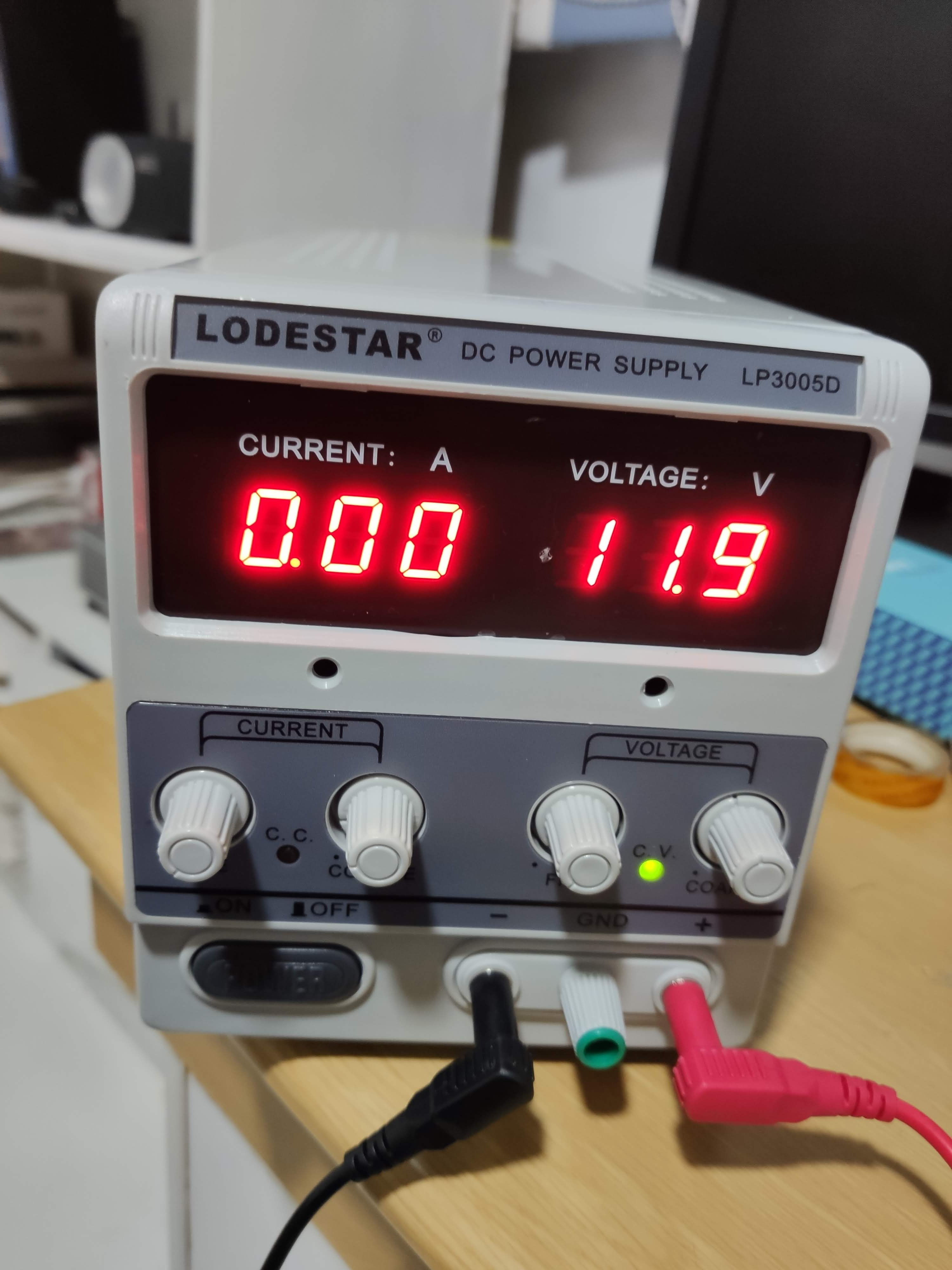 A bench power supply - standalone power supply unit used to provide power to electronic circuits for testing and development.